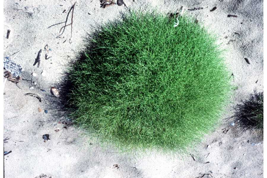 Cycloloma atriplicifolium from Robert H. Mohlenbrock. USDA SCS. 1989. Midwest wetland flora: Field office illustrated guide to plant species. Midwest National Technical Center, Lincoln. Courtesy of USDA NRCS Wetland Science Institute.